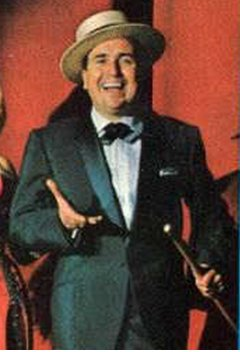 Juan Carlos Mareco